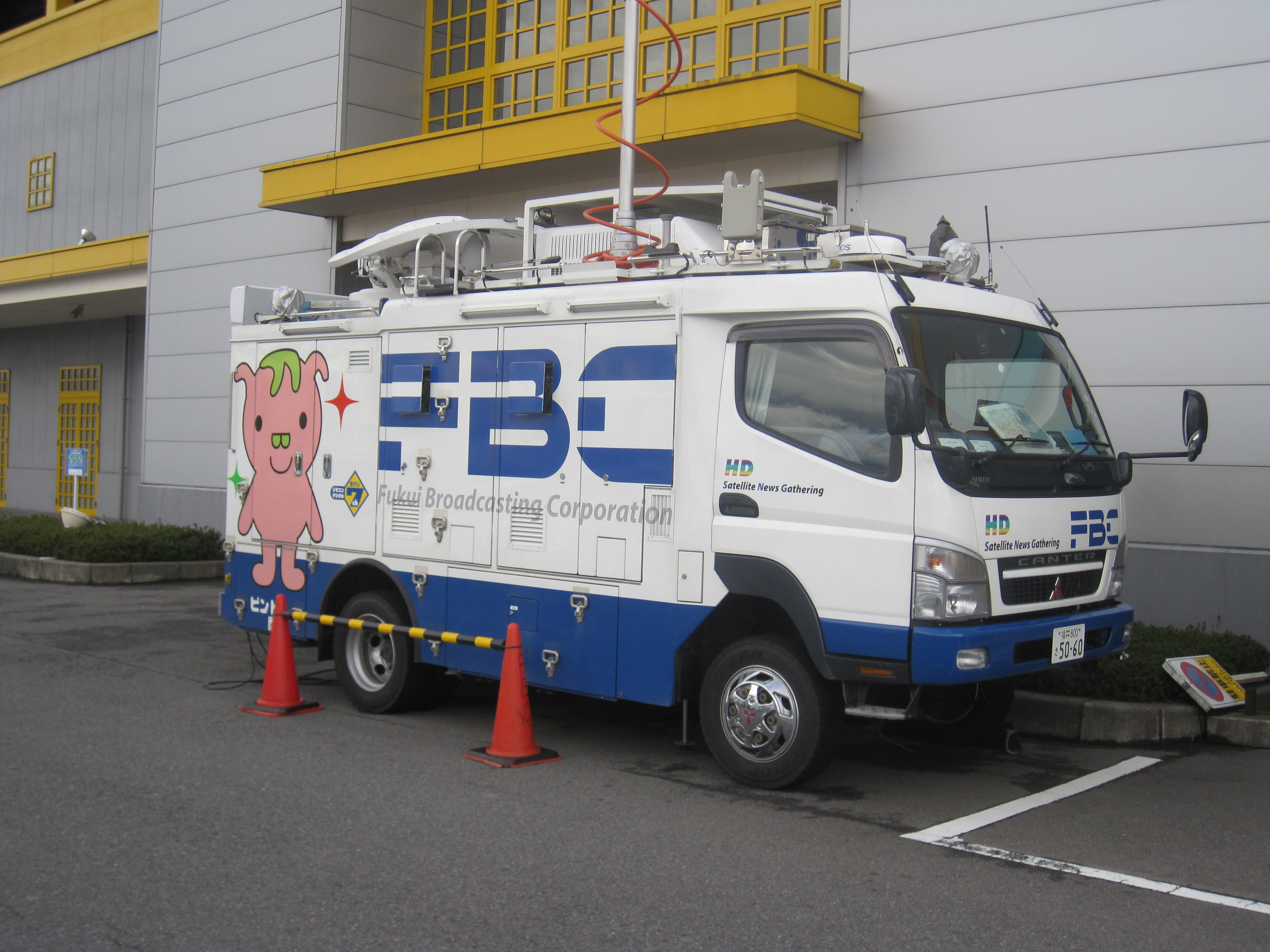 Hi-Vision SNG van (Fuso Canter 4WD) of Fukui Broadcasting Corporation at Fairmall Fukui.